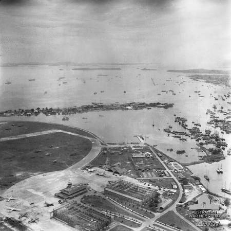 Aerial photograph of Singapore showing bomb damaged civil airport with many allied transport planes.